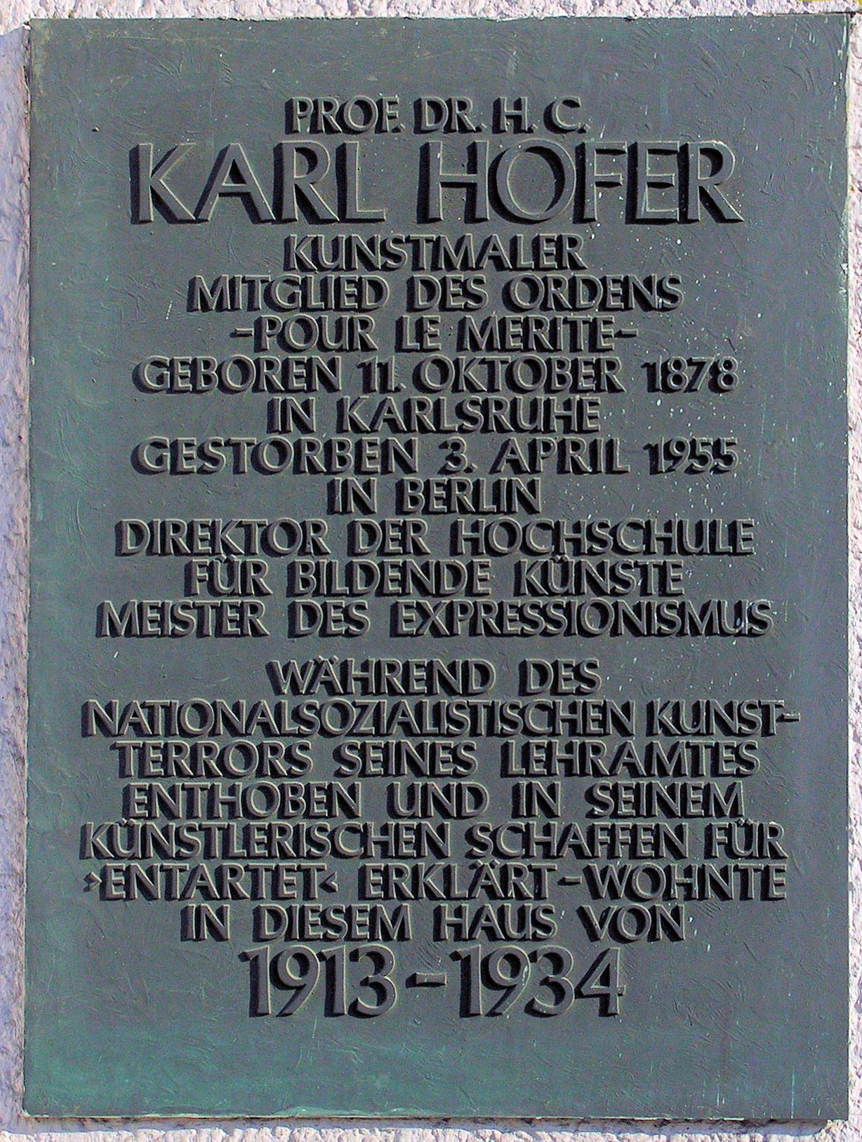 Memorial plaque, Karl Hofer, Grunewaldstraße 44, Berlin-Schöneberg, Germany Koordinate:52°29′20″N 13°20′34.5″E / 52.48889°N 13.342917°E